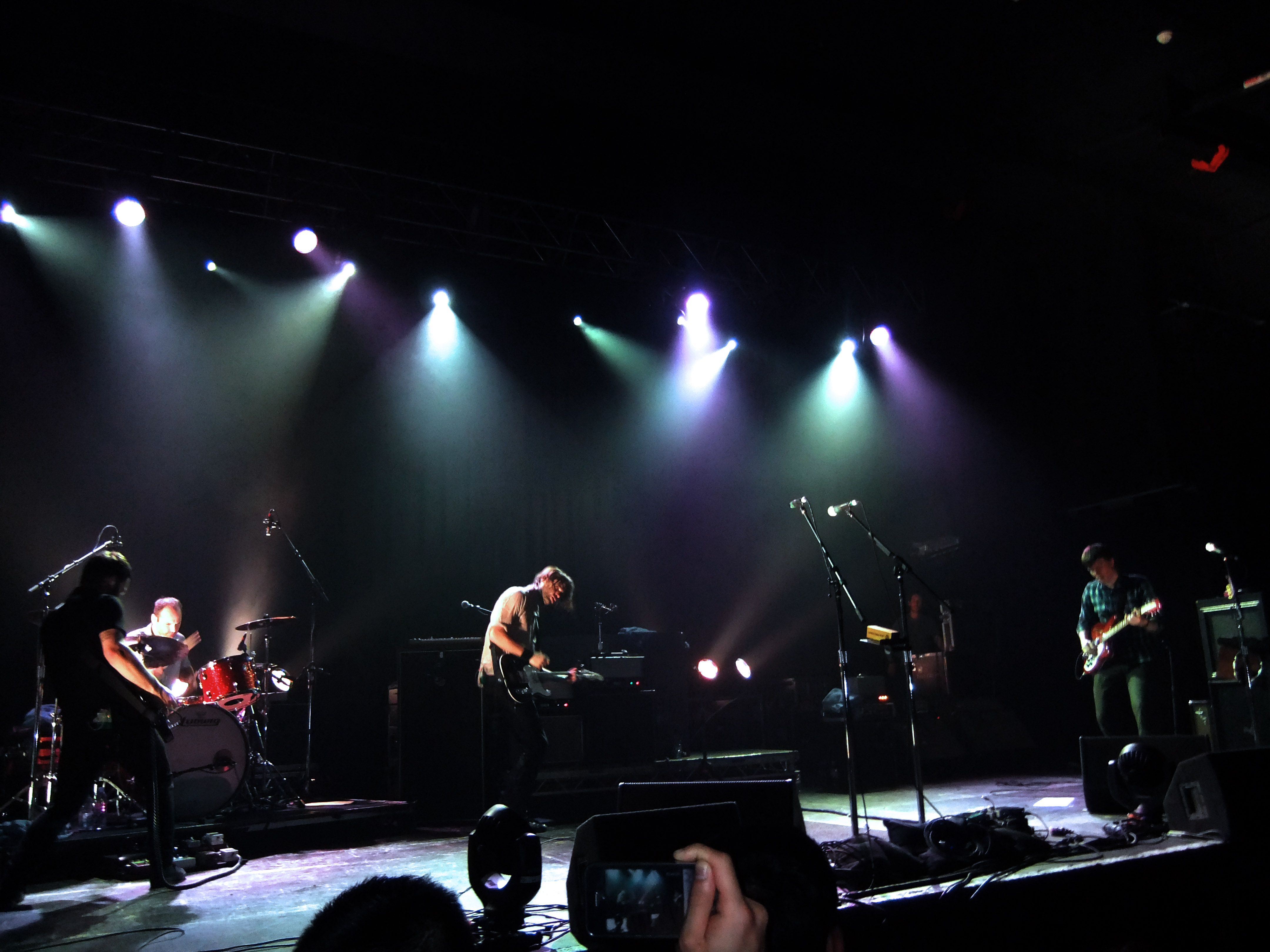 Death Cab for Cutie performing "Transatlanticism" at Manchester Academy 1, 4 July 2011